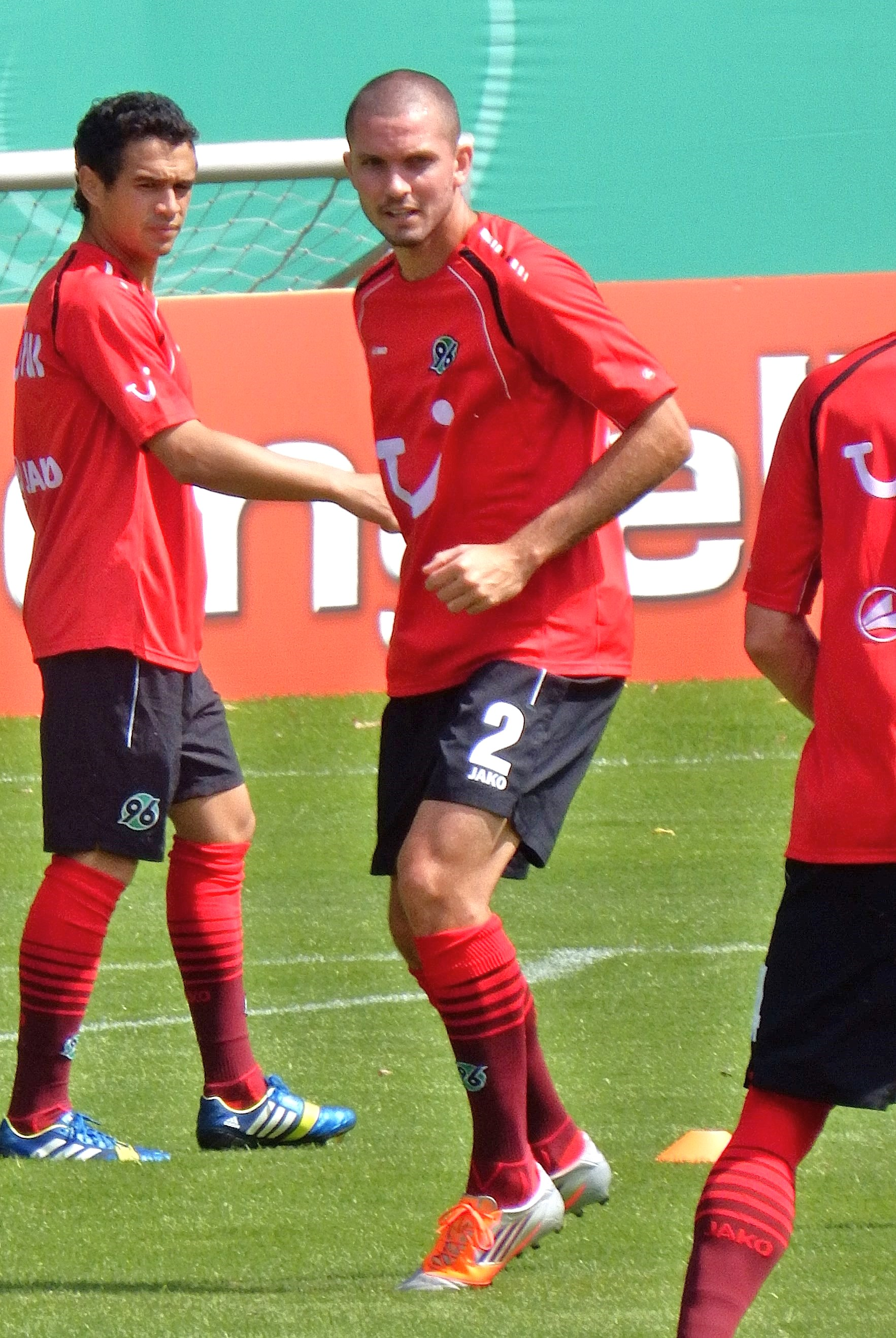 Leon Andreasen as Player of Hannover 96